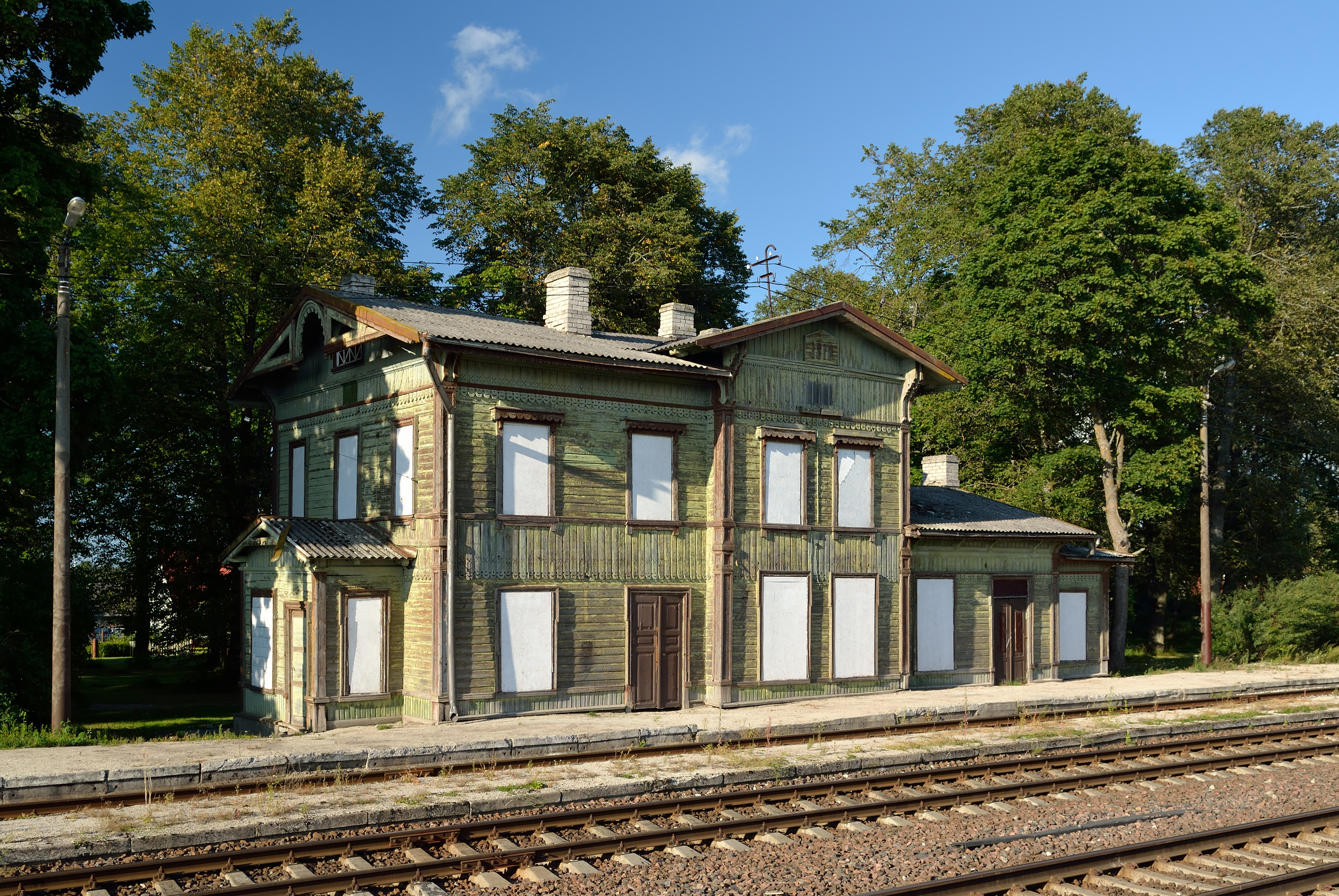 Kabala station building, built in 1870.